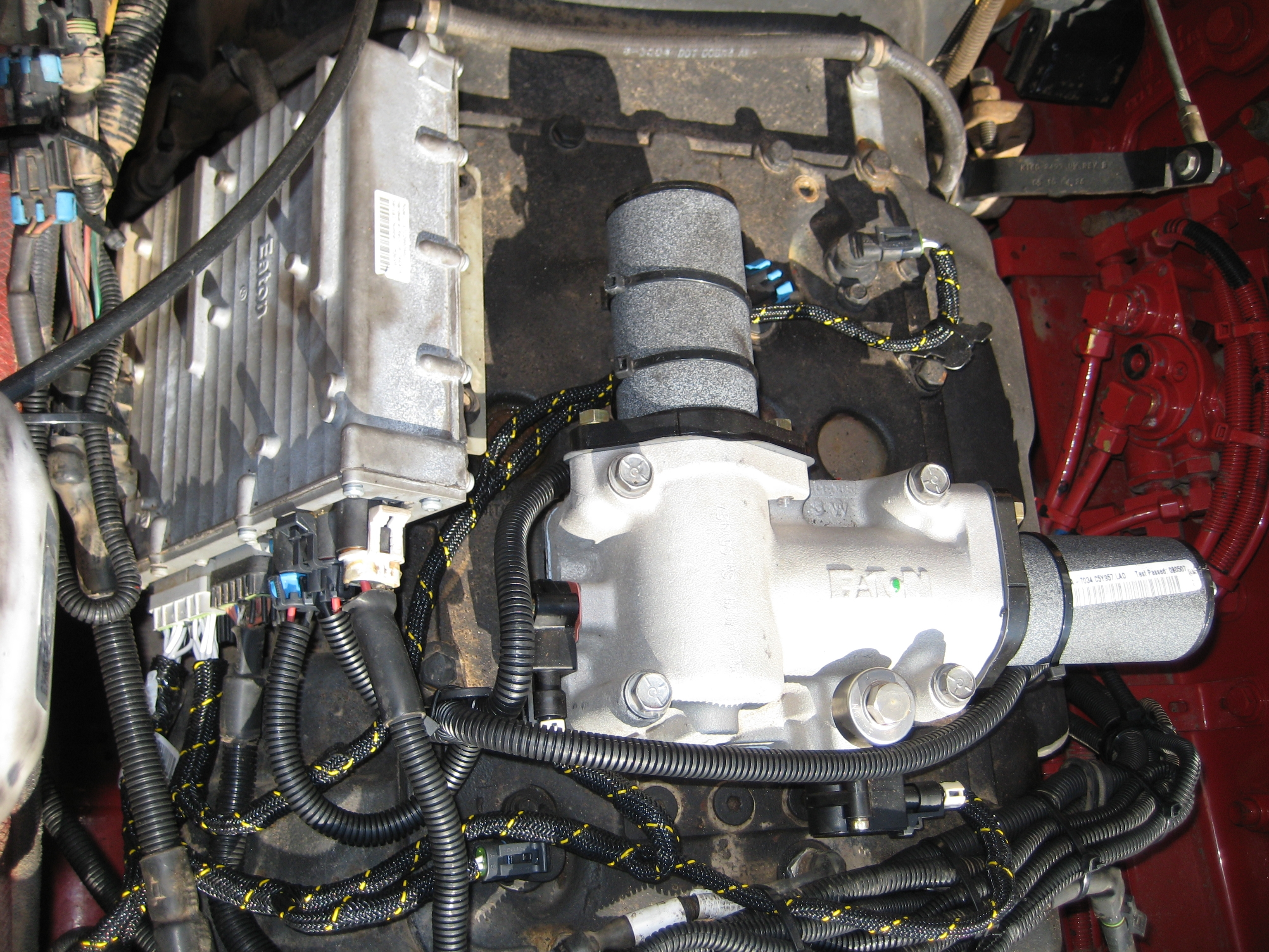 Overview of Eaton Autoshift automatic gearchange components on Kenworth K104 prime mover truck